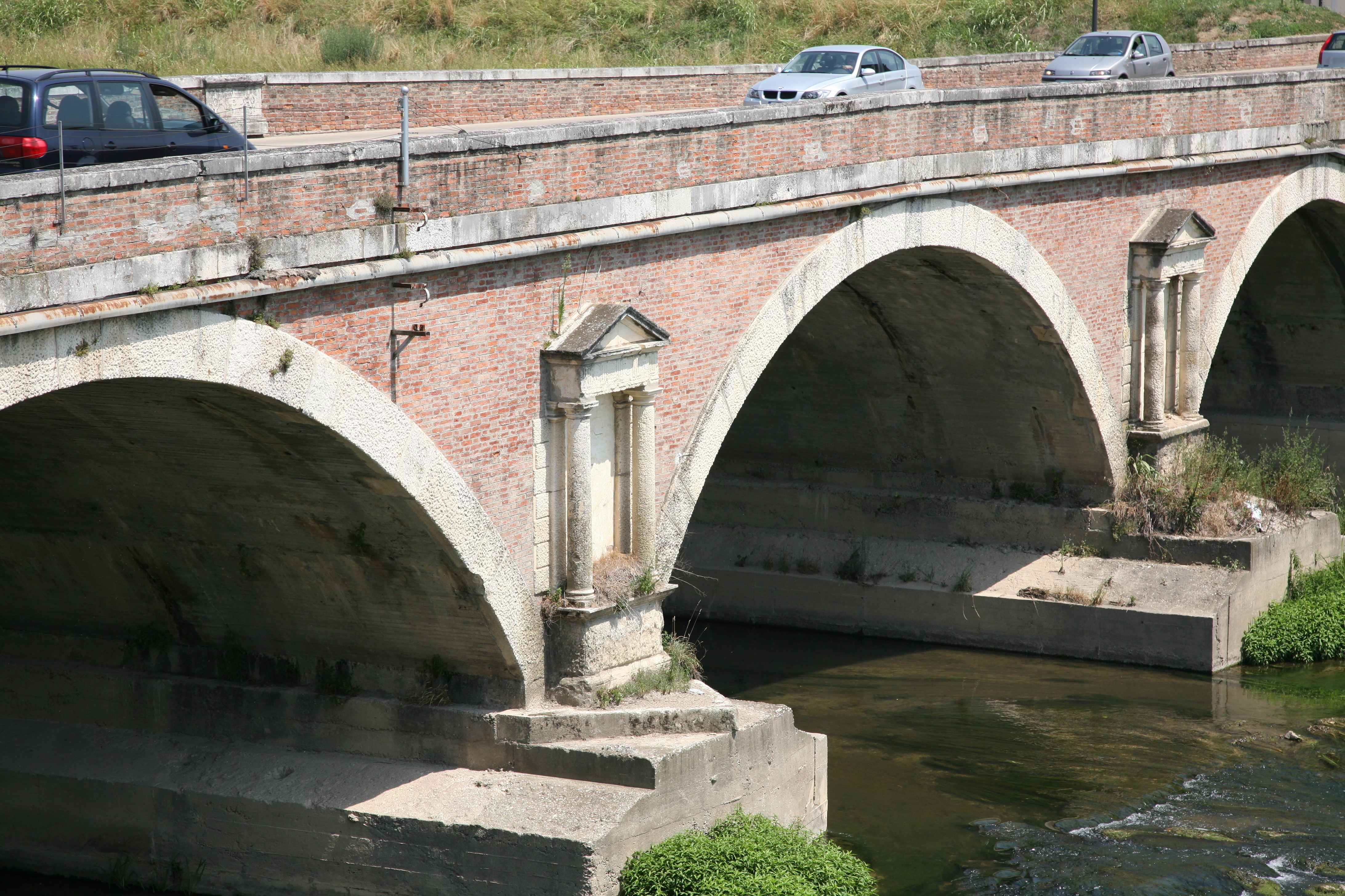 Bridge over Tesina at Torri di Quartesolo. Attributed to Andrea Palladio